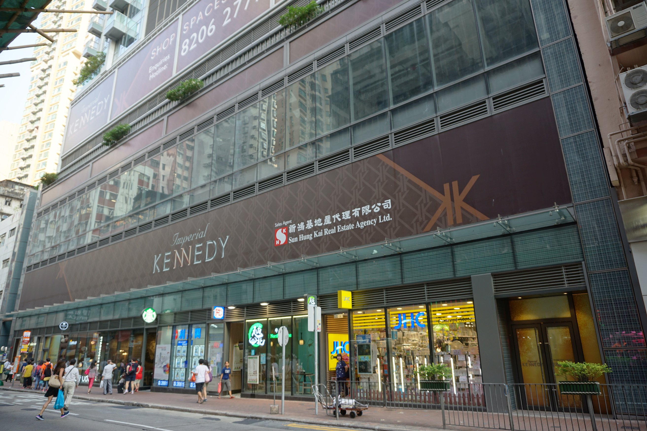 Imperial Kennedy in Kennedy Town, Hong Kong.